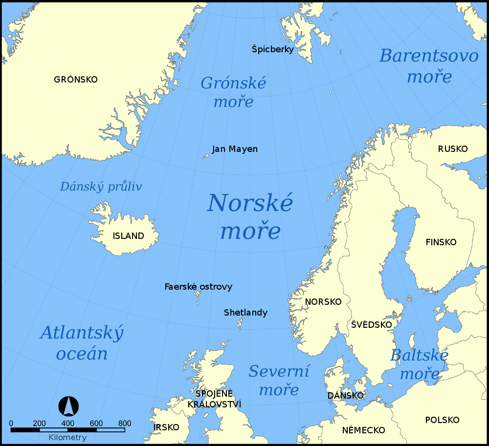 A map showing the location of the Norwegian Sea in the North Atlantic Ocean. Czech translation. There's also a blank version of the map available here: Image:Norwegian Sea blank map.png Created by NormanEinstein, August 25, 2005.